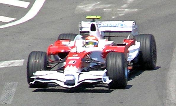 Timo Glock driving for Toyota F1 at the 2008 Monaco Grand Prix.